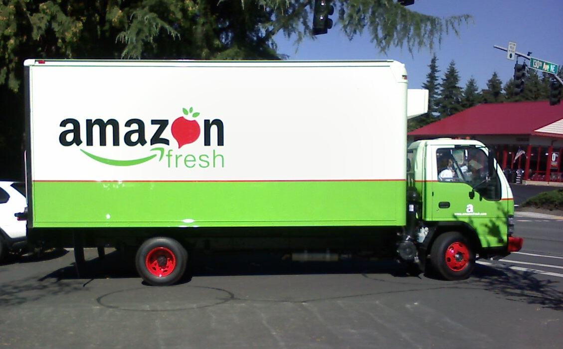 Amazon Fresh Truck